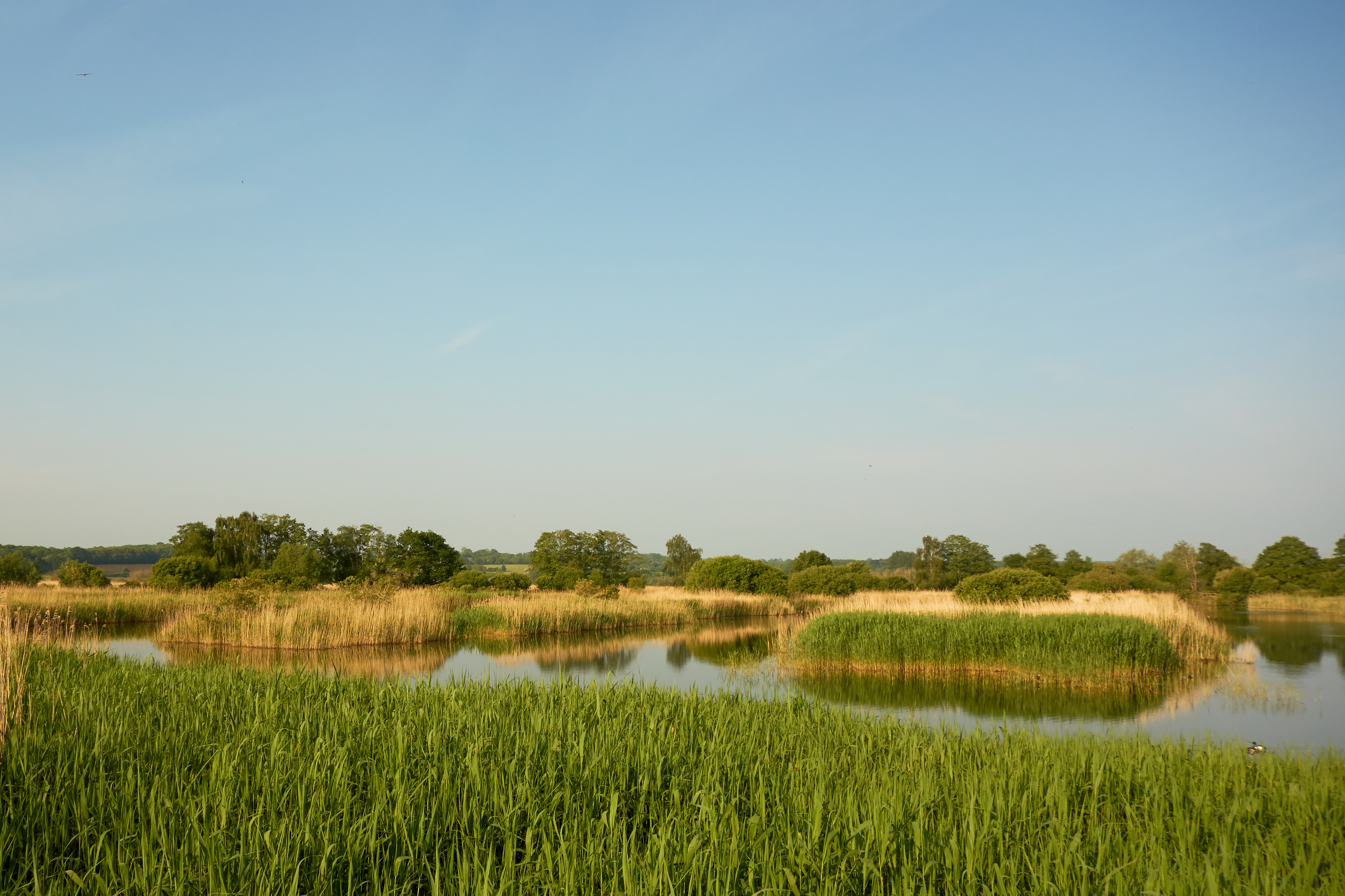 Reedbeds at Ham Wall nature reserve, Somerset